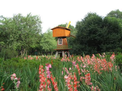 Shenyang, Exposition horticole internationale 2006